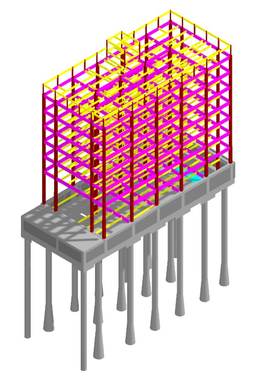 A rendering of a Microstation example drawing